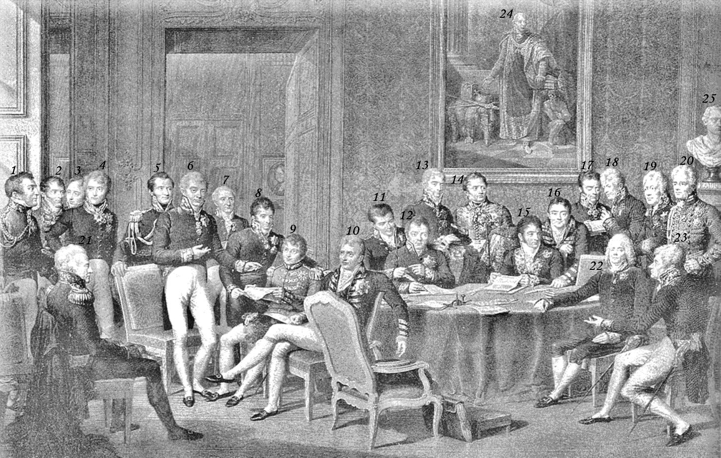 Isabay's picture of Vienna Congress with my own descriptive numbers 1.Duke of Wellington (UK) 2.Joaquim Lobo da Silveira (Portugal) 3.Antonio Saldanha da Gama (Portugal) 4.Count Löwenhielm (Sweden) 5.Jean de Noailles (France) 6.Prince von Metternich (Austria) 7.Dupin the Elder (France) 8.Count Nesselrode (Russia) 9.Duke de Palmela (Portugal) 10.Viscount Castlereagh (UK) 11.Duke of Dalberg (France) 12.Ignaz Heinrich von Wessenberg (Confederation of the Rhine) 13.Andreas Razumovsky (Russia) 14.Charles Stewart, 3rd Marquess of Londonderry (UK) 15.Pedro Gomez Labrador, Marquis of Labrador (Spain) 16.Richard Le Poer Trench, 2nd Earl of Clancarty (UK) 17.Wacken (Recorder) 18.Friedrich von Gentz (Congress Secretary) 19.Baron Friedrich Wilhelm Christian Karl Ferdinand von Humboldt (Prussia) 20.William Schaw Cathcart, 1st Earl Cathcart (UK) 21.Prince Karl August von Hardenberg 22.Talleyrand (France) 23.Count Gustav Ernst von Stackelberg (Russia) 24.probably Francis II, Holy Roman Emperor 25.Count Wenzel Anton Kaunitz